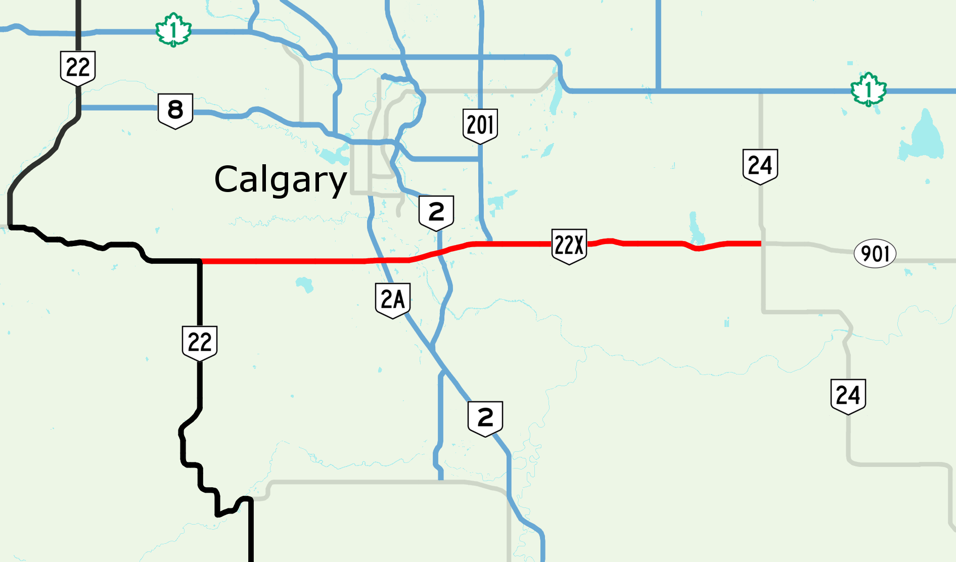 Alberta Highway 22X in Calgary, Alberta.